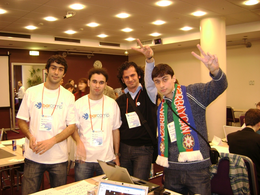 BarCamp Baltics 2008